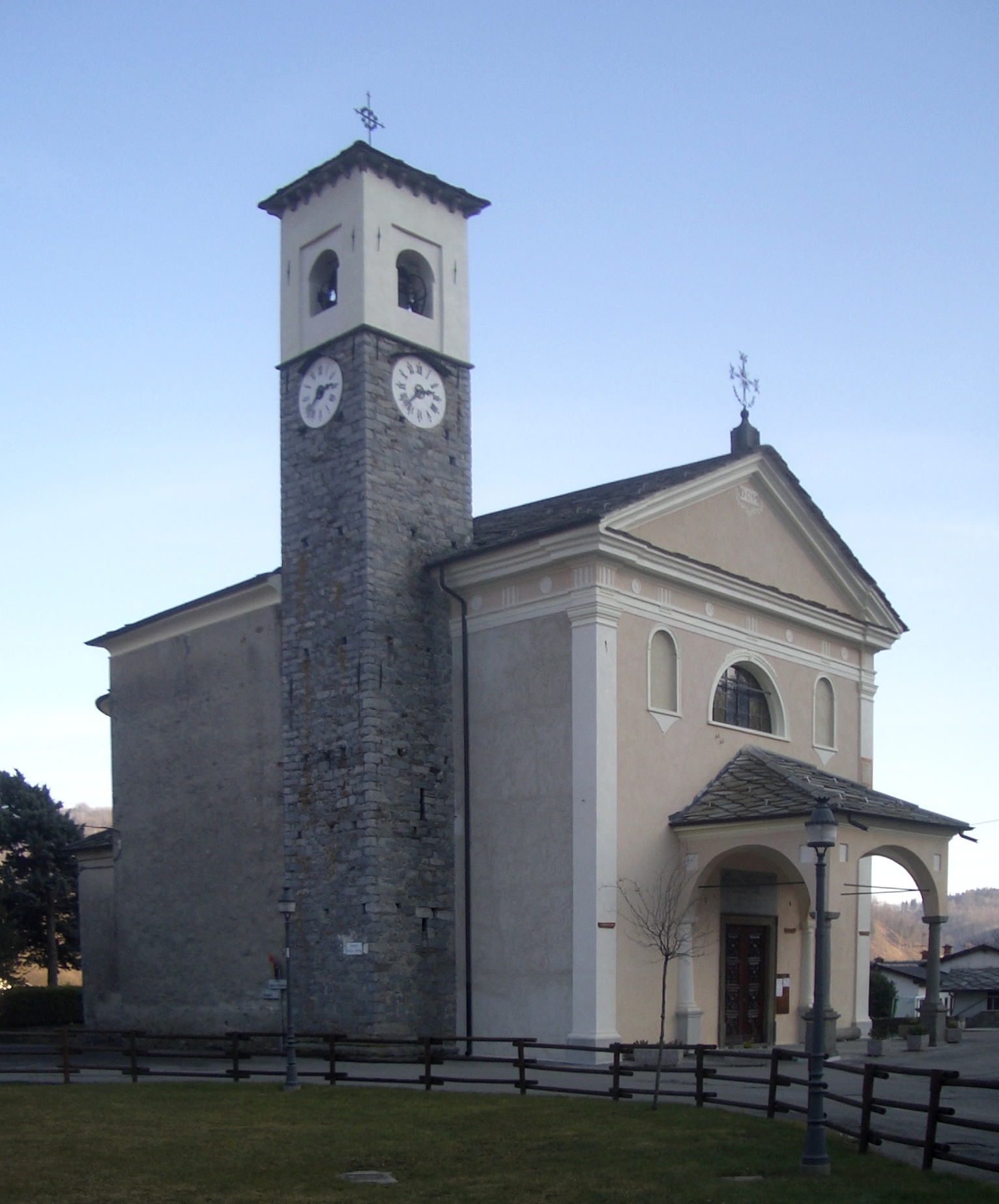 San Grato parish church , Trausella, Turin, Italy